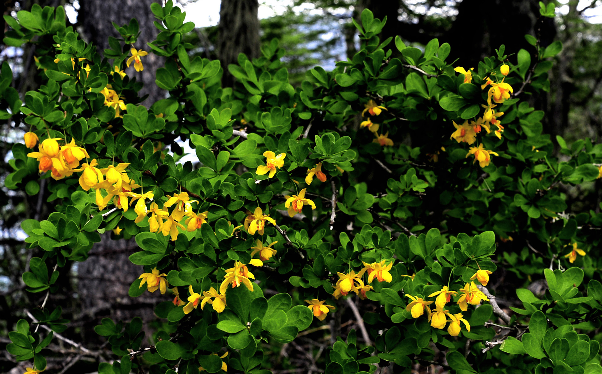 Flowering barberry. Conguillío National Park, Araucanía, Chile